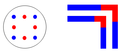 thumb|right|400px|Illuminations for different orientations. Left: the blue and orange positions in the pupil (poles) are both satisfactory for imaging the horizontal pitch. Right: the orange position can image the diagonal pitch but with poor depth of focus, but the blue cannot produce the image when light is scattered beyond the numerical aperture (black circle). Different orientation pitches will require different illuminations.refW. N. Partlo et al., Proc. SPIE 1927, 137 (1993). The colored patterns on the right are matched to the corresponding pupil locations on the left.